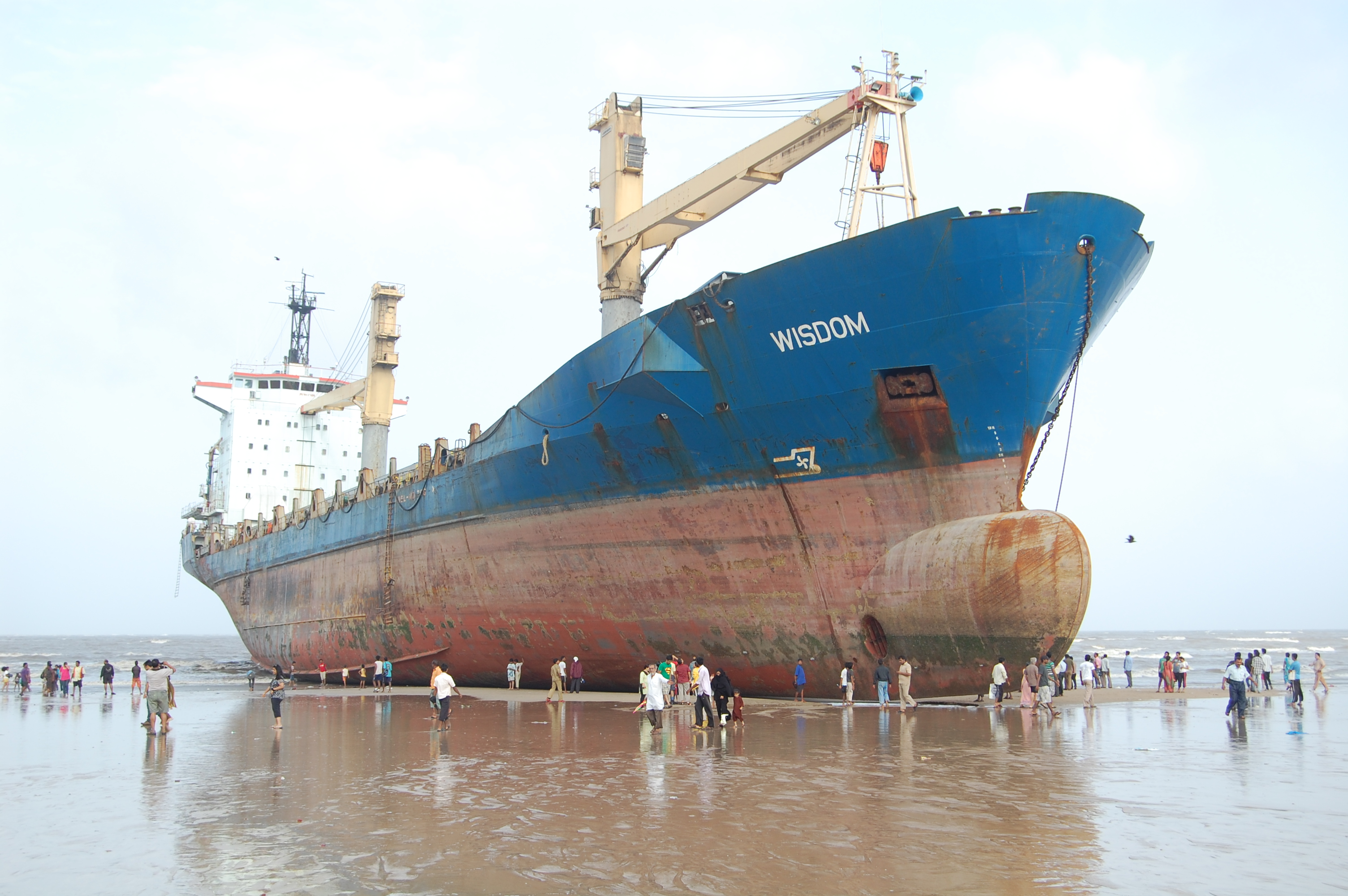 The ship for breaking escaped the steel ropes of tugs and ventured to be in Juhu beach...